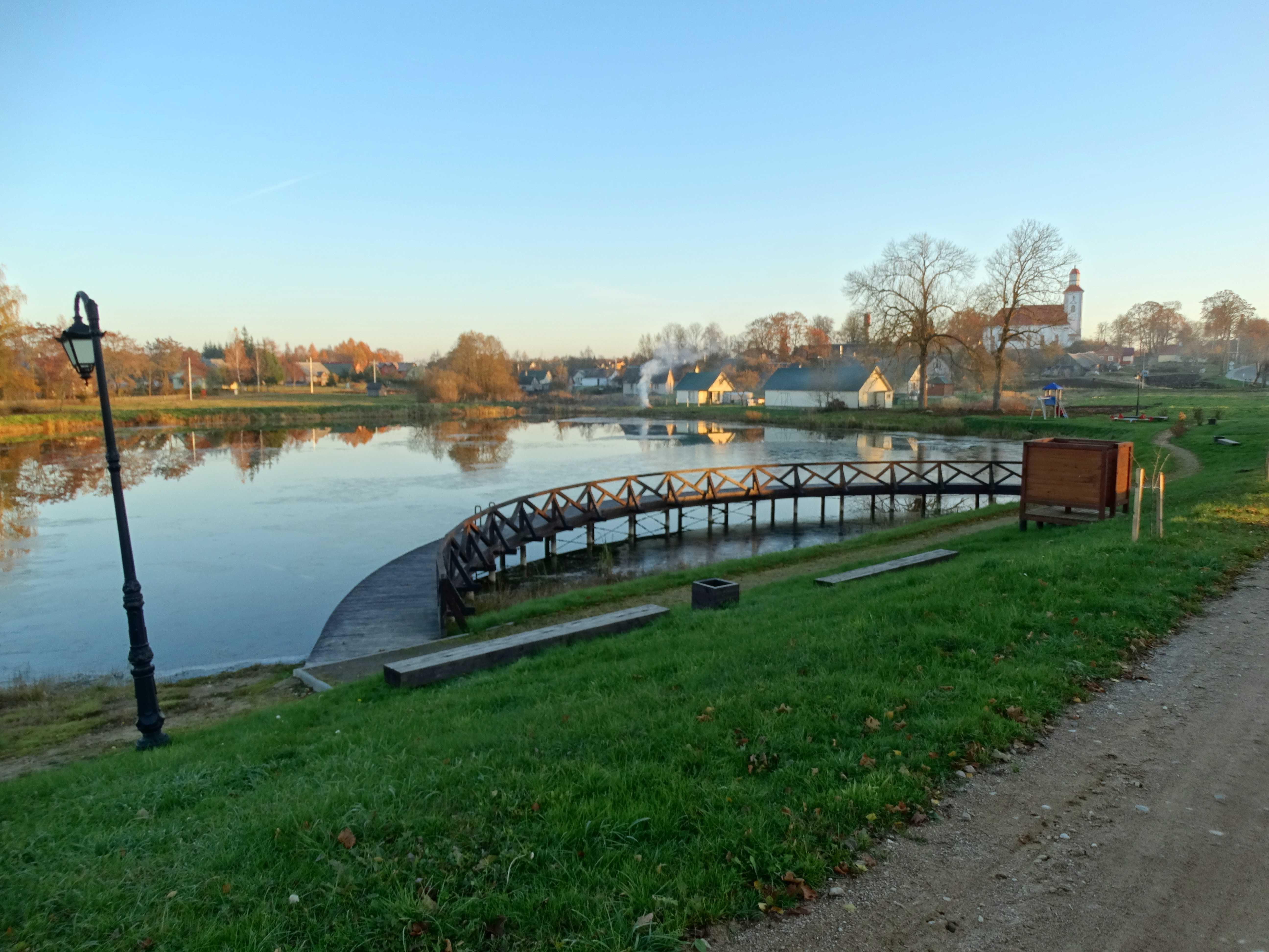 Videniškiai, pond, Molėtai district, Lithuania